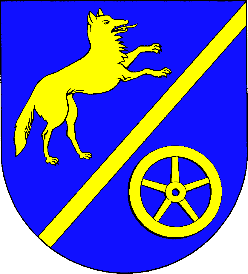 Coat of arms of the municipality Windeby in Schleswig-Holstein, Germany.